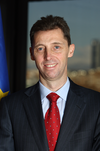 Arturo Azorra